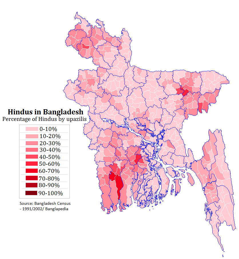 Map of Bangladesh, showing the distribution of Hindus by percentage from upazila's.